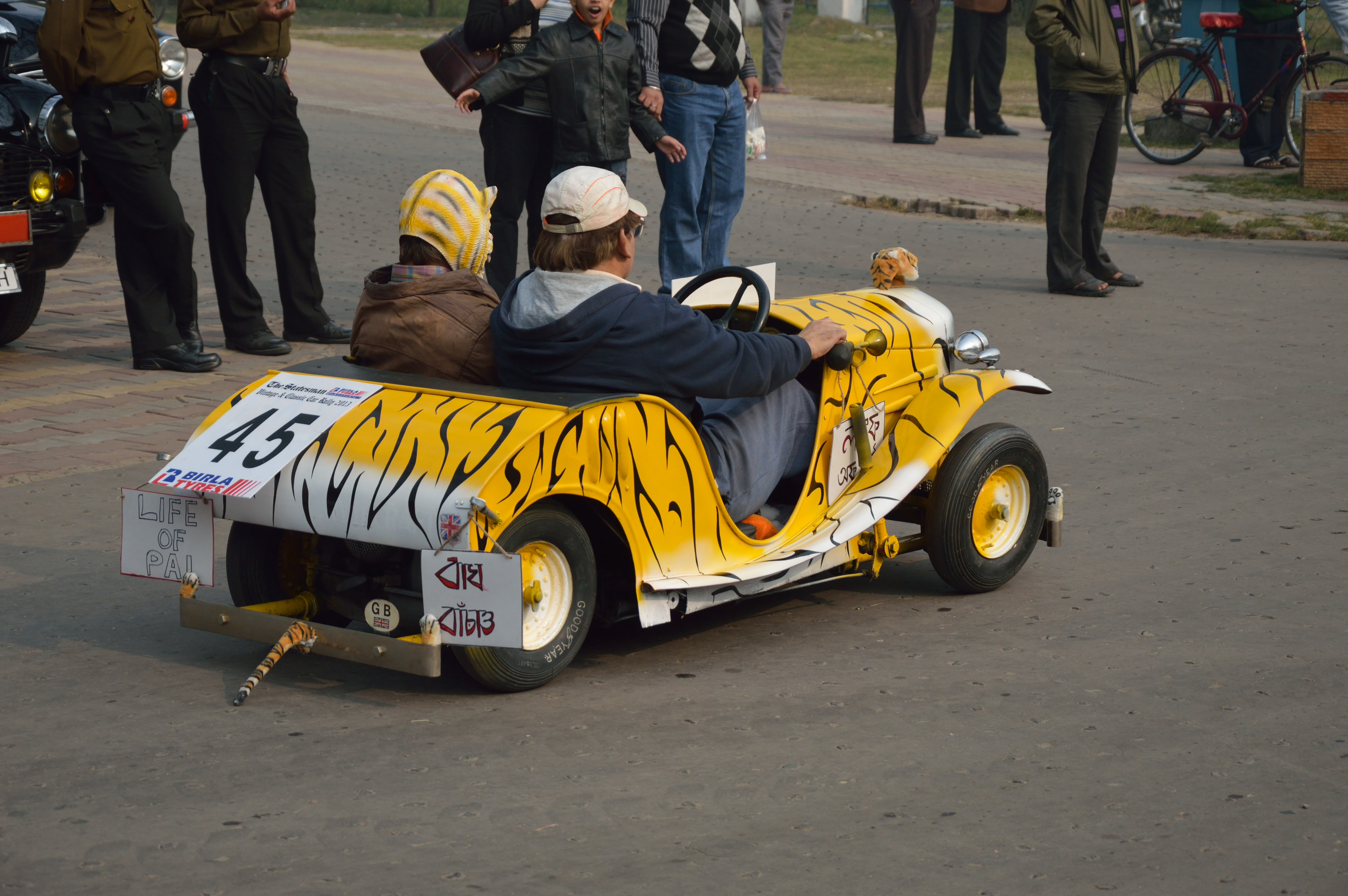 This car was exhibited and ran during ‘The Statesman Vintage & Classic Car Rally 2013’ from the Eastern Command Sports Stadium of Fort William, Kolkata to the same via: Rabindra Sadan, Esplanade, Central avenue, Bhupen Bose avenue, Shaymbazaar five points crossing, APC Roy road, AGC Bose road Park Circus seven points, Gariahat flyover, Gol park, Rabindra Sarover, SP Mukherjee road, Hazra Road, Alipore road and Strand road, the route covers 31.32 km. The rally was held at chilled morning on 13 January 2013 at the ECS Stadium, where 170 entrants were participated with cars and bikes manufactured from 1906 to 1978. This one day festival takes place on the second Sunday of every January in Kolkata since 1968 with full of period costume and cultural period pieces.